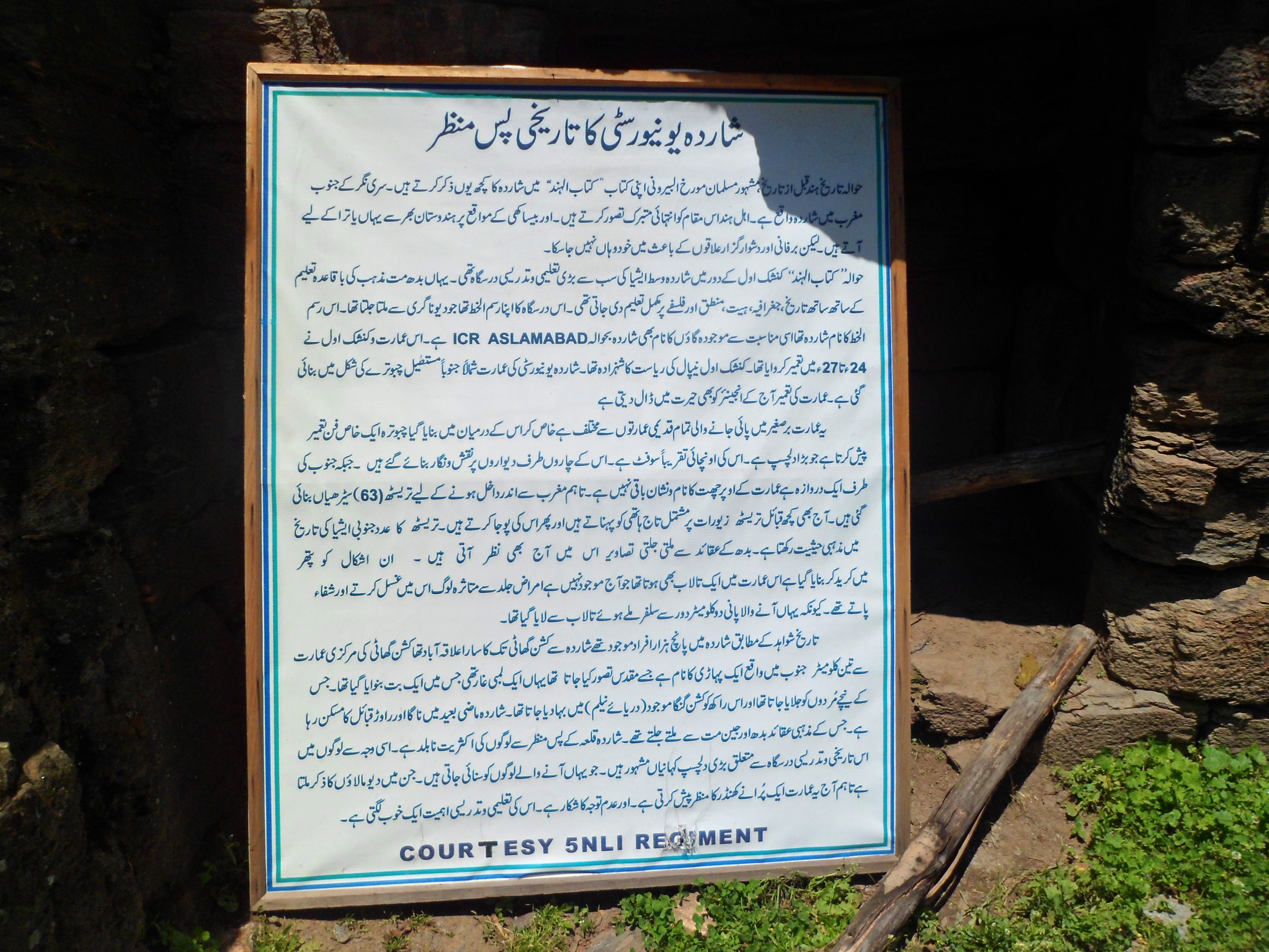 Information sign at Sharda Temple (Sharada Peeth). Sharda is a small town situated in Azad Kashmir, Pakistan. It is famous for its ruined temple structures.